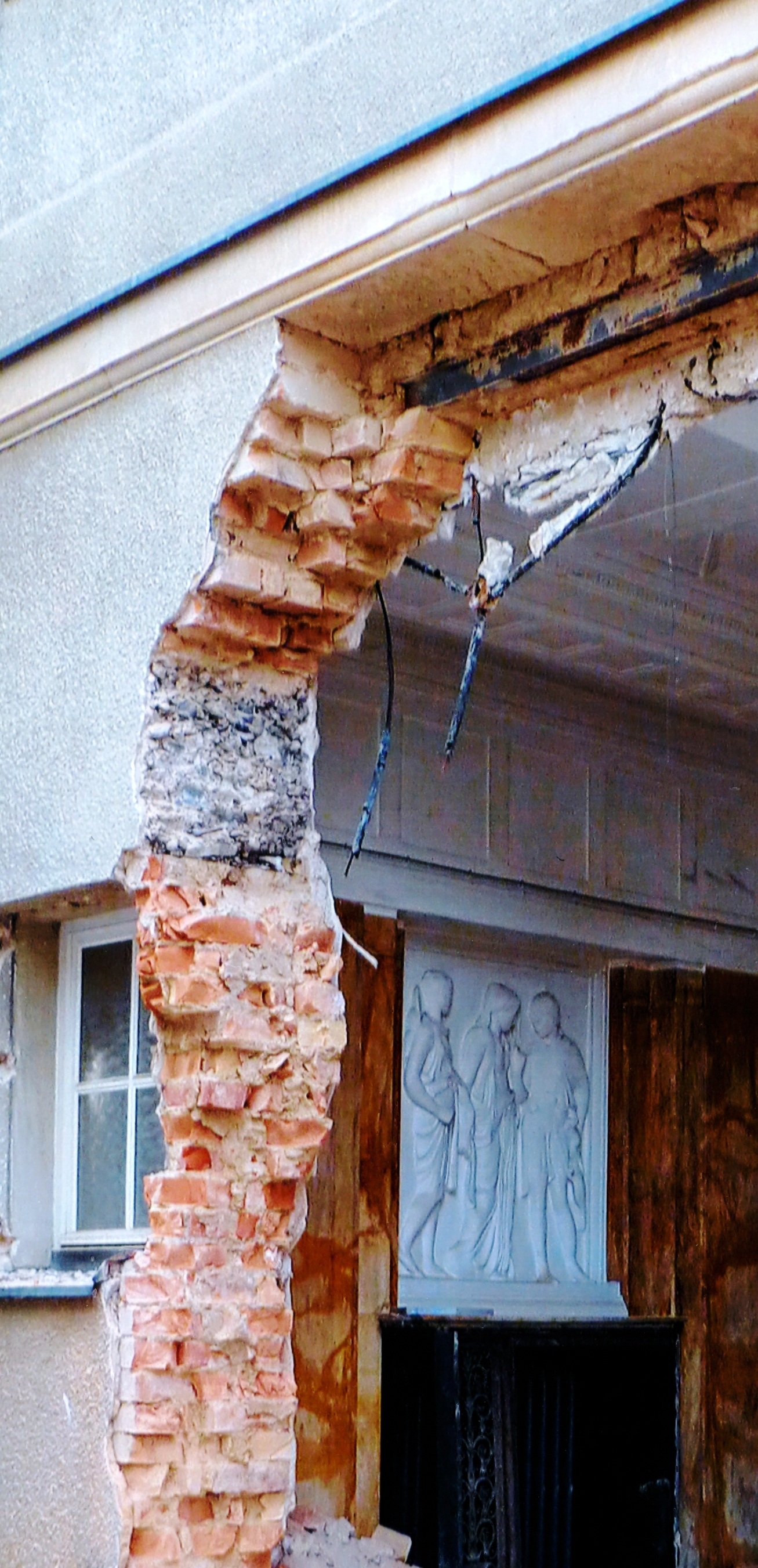 Heilbronn, Haus Allee 18 (Villa Ludwig Hauck), 2011, Loch auf der Nordseite, Ausschnitt a.jpg